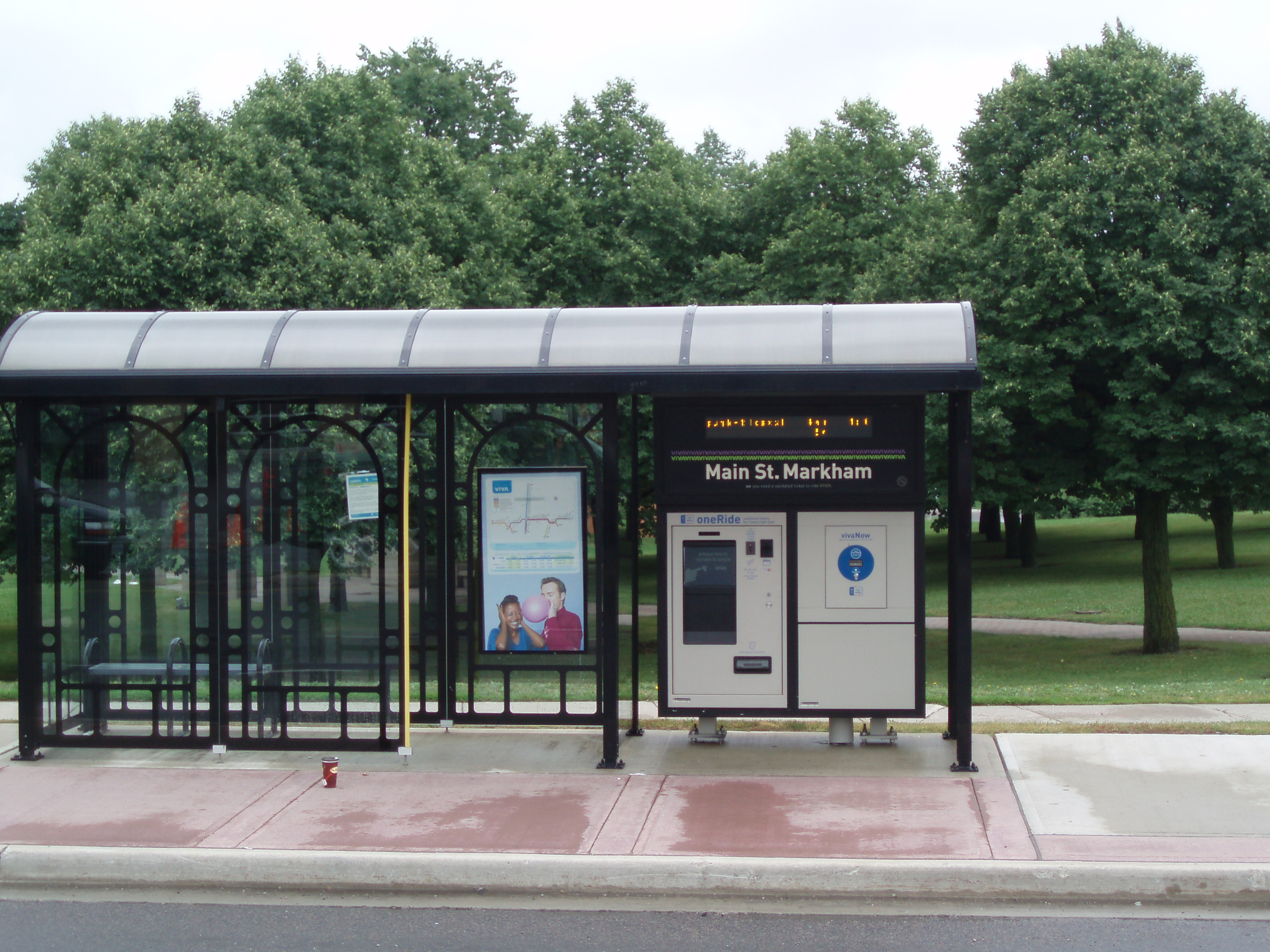 Main Street Markham VIVA Terminal